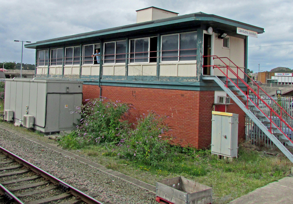 Llandudno Junction signal box in 2013